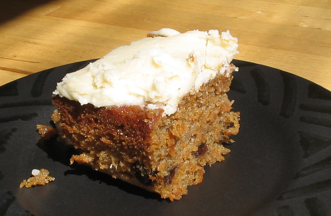 A piece of carrot cake. David Benbennick took this photo on Wednesday, May 4, 2005 at 2:09 PM (13:09 UTC). See Image:Carrot cake.jpg for more information about the recipe used to make this cake.